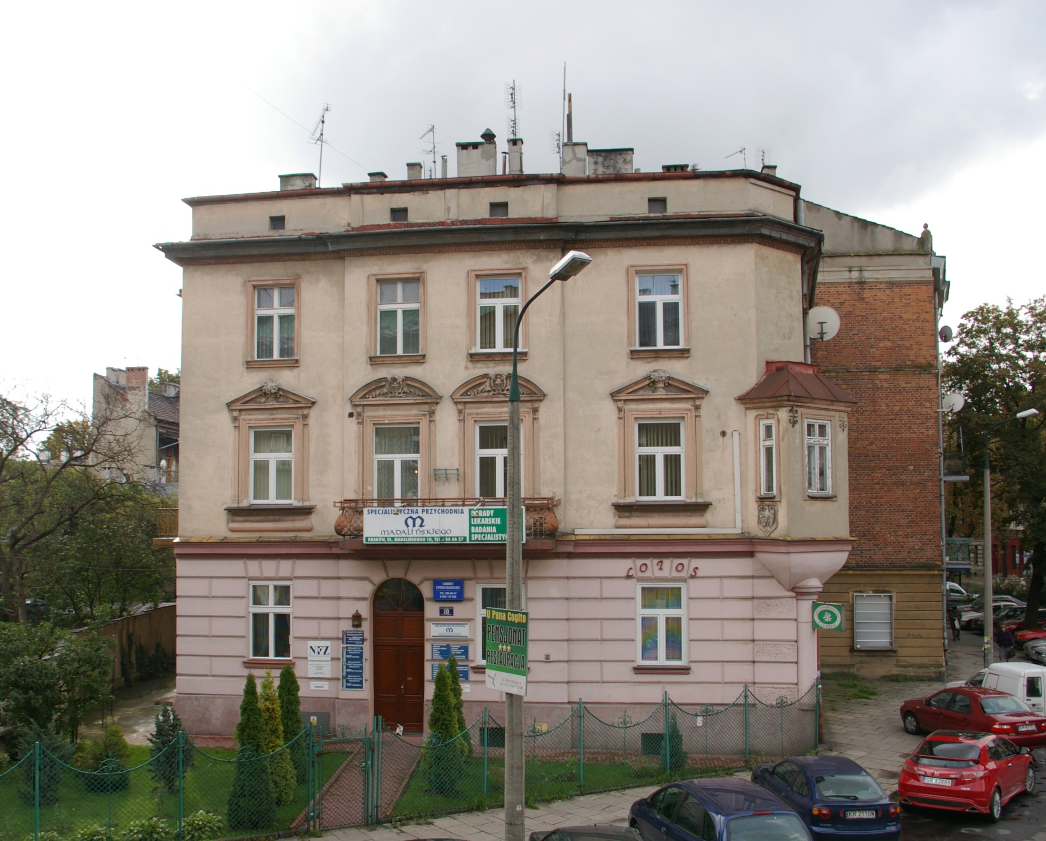 The house at 10 Madalińskiego Street in Kraków, former seminary